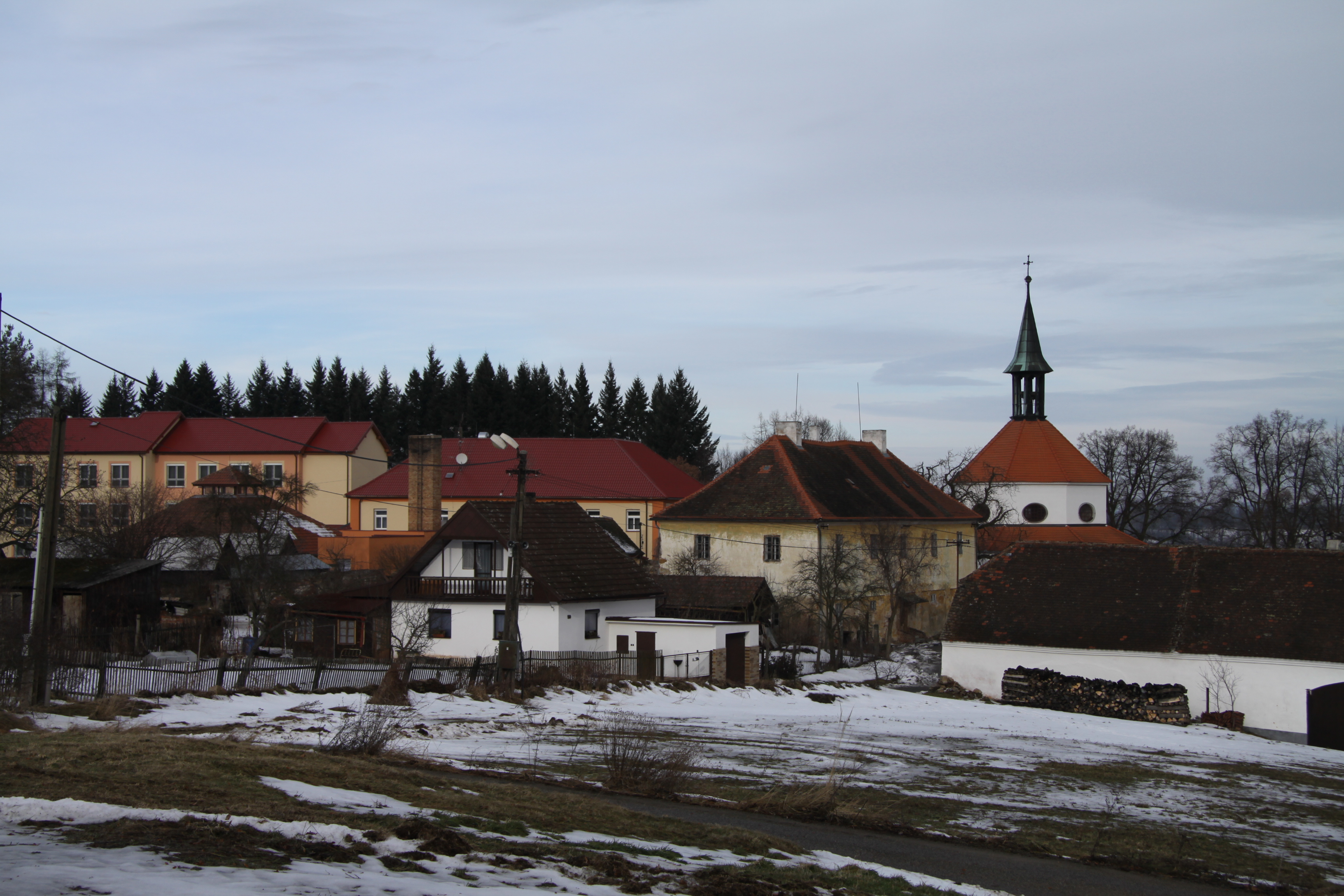 Skočice village in Strakonice District, Czech Republic.